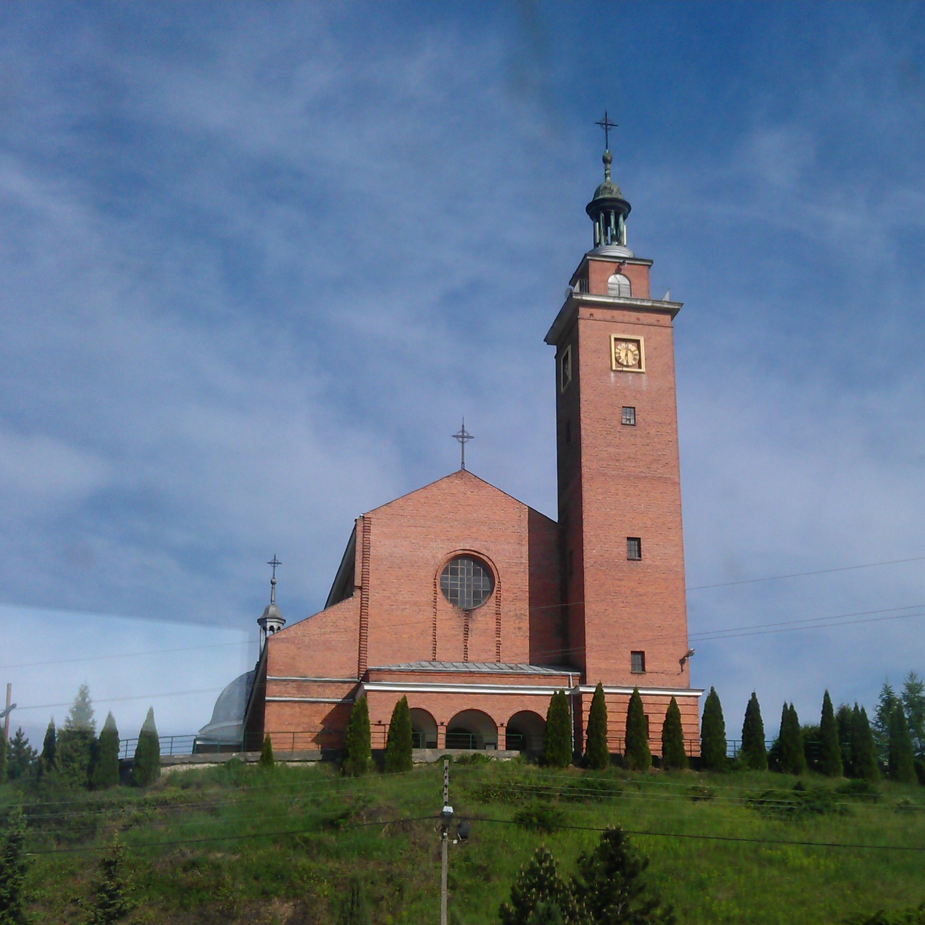 What is remarkable about it, is the surprisingly good architecture as for a church built between 1950's and 1970's. Kościół św. Andrzeja Boboli i św. Antoniego Pustelnika w Dwikozach